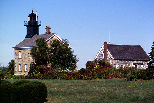 OLD FIELD LIGHTHOUSE, LONG ISLAND, NY